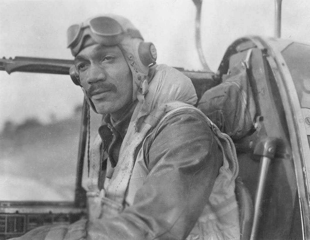 African American Aviation Collection Repository: San Diego Air and Space Museum Archive